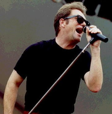 Huey Lewis performing at at Gulfstream Park in Hallandale, FL